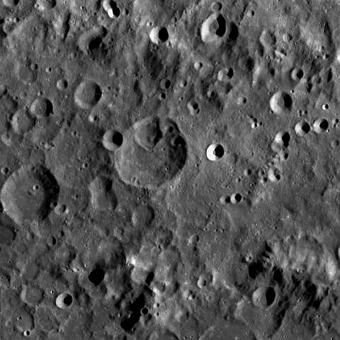 LRO-WAC, Mohorovicic (center) is located just between SPA Basin rim (top) and inner ring (bottom)